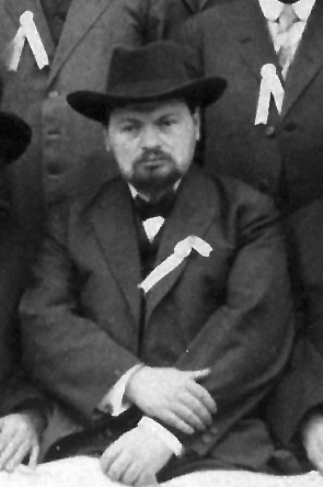 First National Meeting of American Orthodox Rabbis ca 1920. Meeting held at Congregation Shaarey Zedek, Brush and Willis. Rabbis pictured on steps of synagogue. The meeting was convented byRabbi Judah Levin. Bottom row eighth from left: Rabbi Meyer Berlin, president of American Mizrachi, tenth: Rabbi Aaron Shinsky; eleventh:Rabbi Judah Leib Levin twelfth:Rabbi Abraham Hershman; fourteenth: Rabbi Ezekiel Aishiskin. Third row, far right: Abba Keiden fourth row, third from right: Max Jacob ( courtesy Archives of Congregation Shaarrey Zedek).